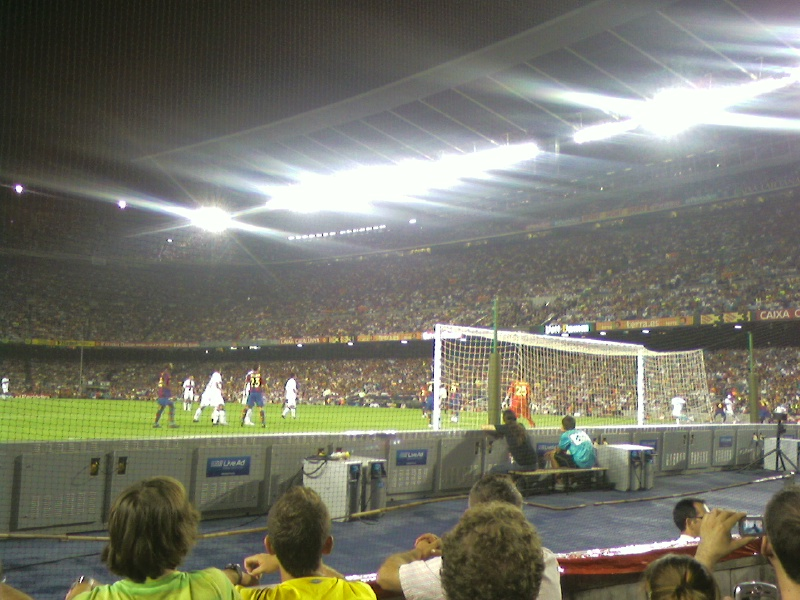 FC Barcelona vs Inter in Joan Gamper Trophy 2007